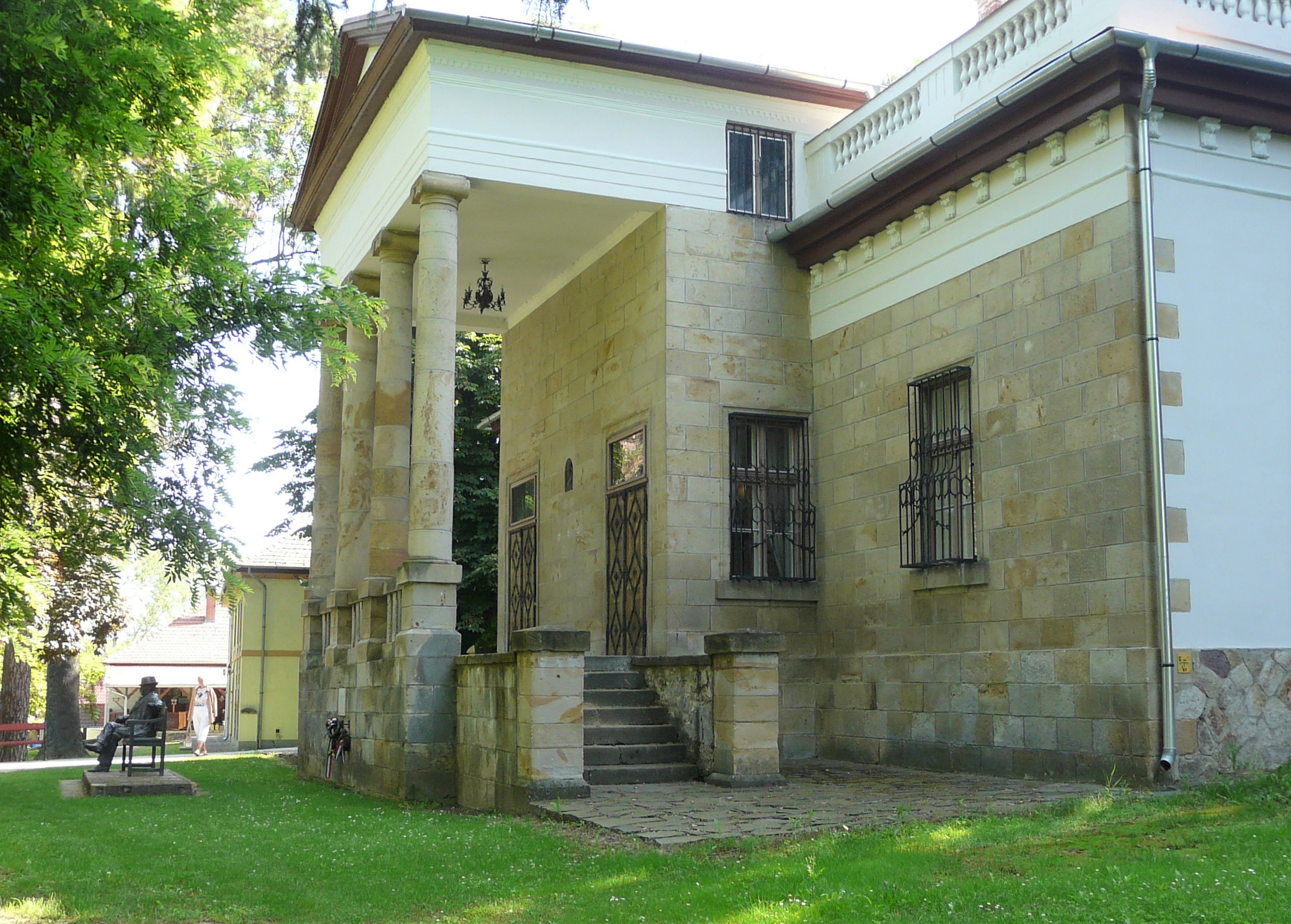 Memorial house of writer Kálmán Mikszáth in Horpács, Hungary